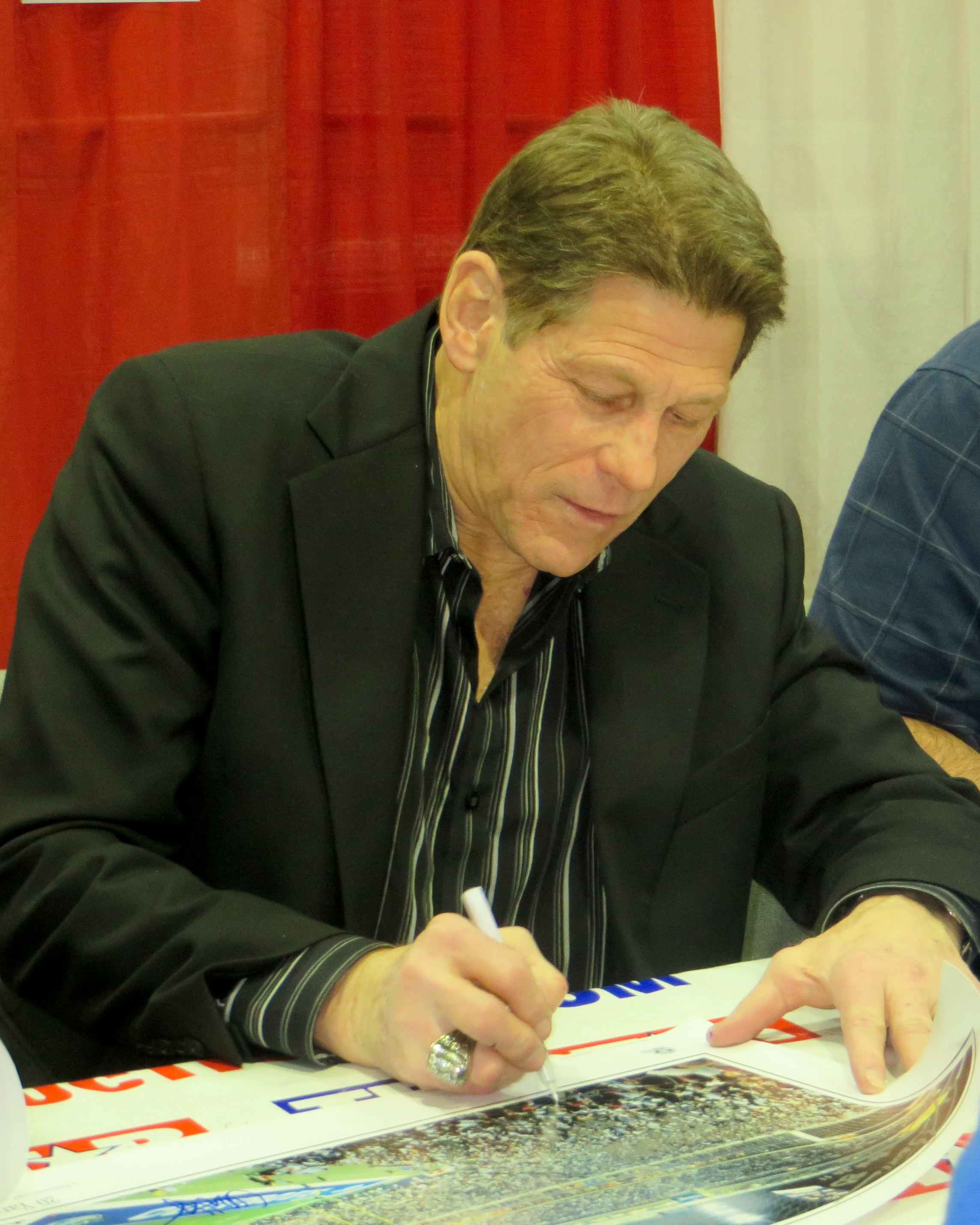 Charlie Waters signs autographs at a Houston sports collectors show in January 2014.